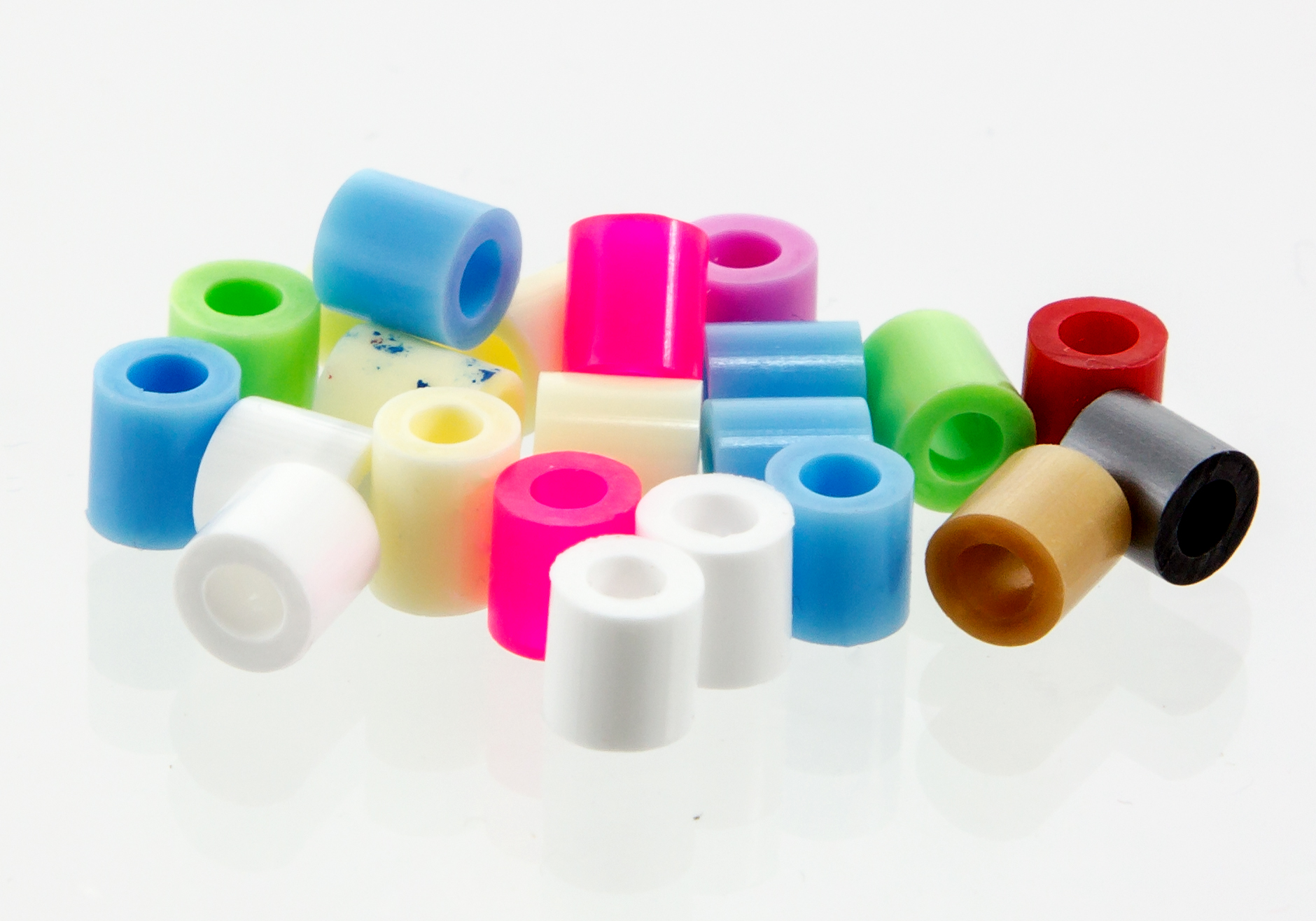 Plastic beads in different colors